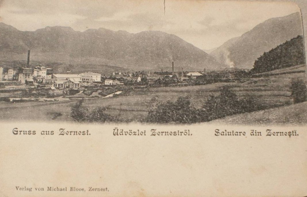 the paper factory in Zărnești, postcard from 1904